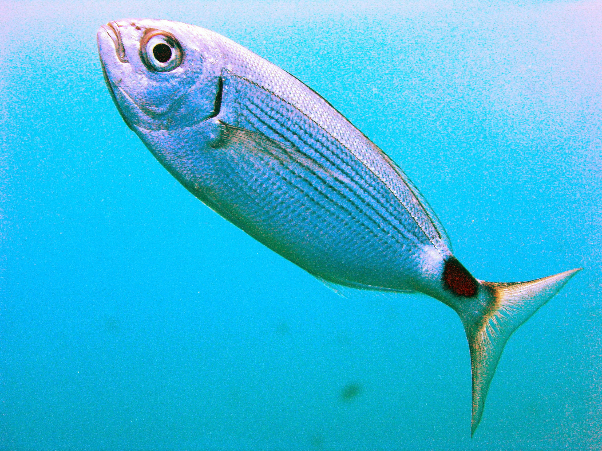 Oblada melanura photographed near Livorno, Tuscany, Italy.